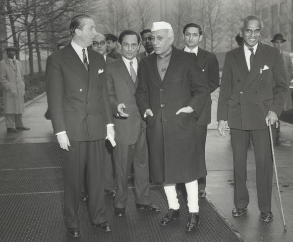 Jawaharlal Nehru and V.K. Krishna Menon, United Nations, New York, 21 December 1956